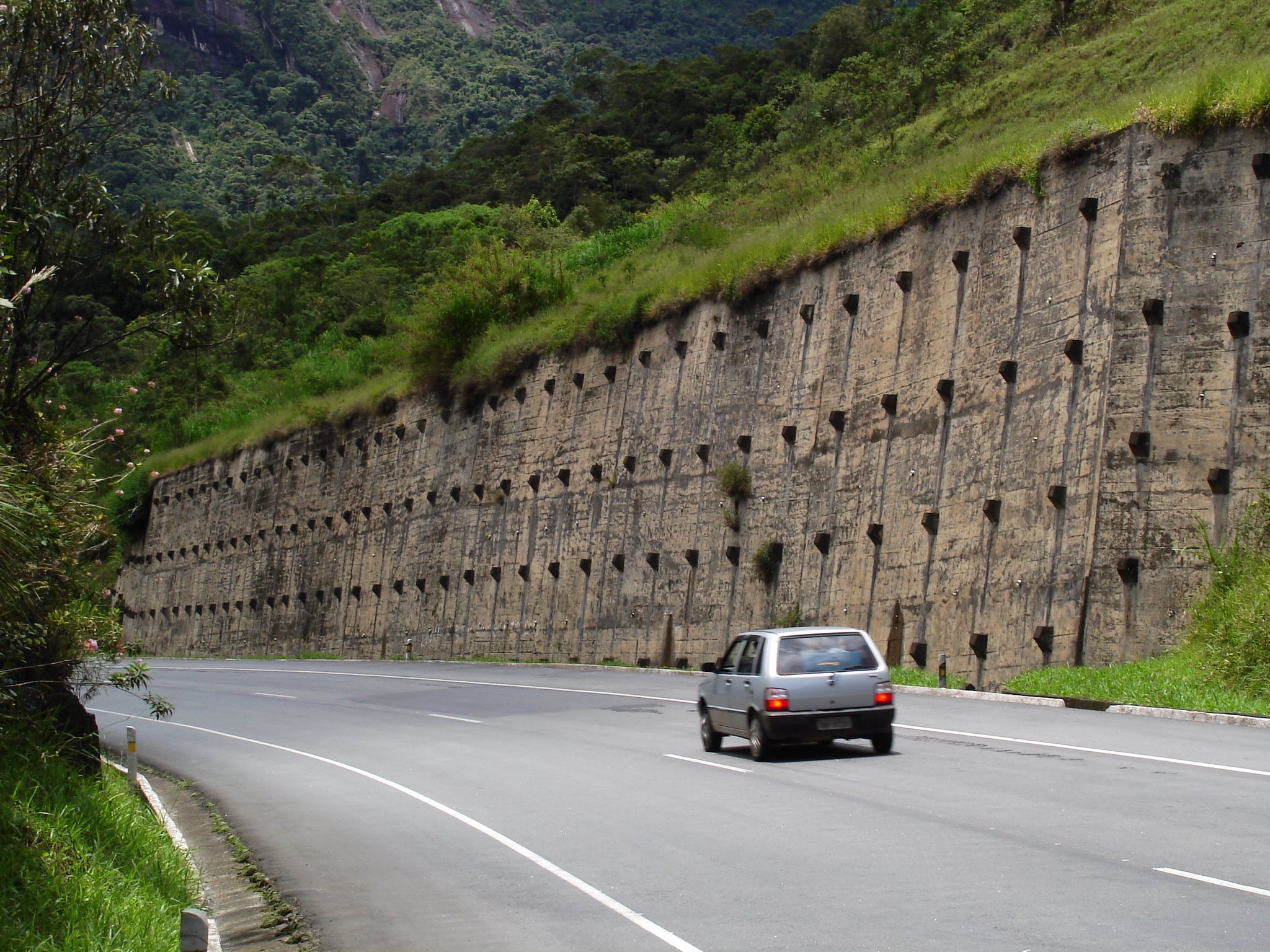 Tiebacks in an anchored wall, BR-040 Highway, Brazil